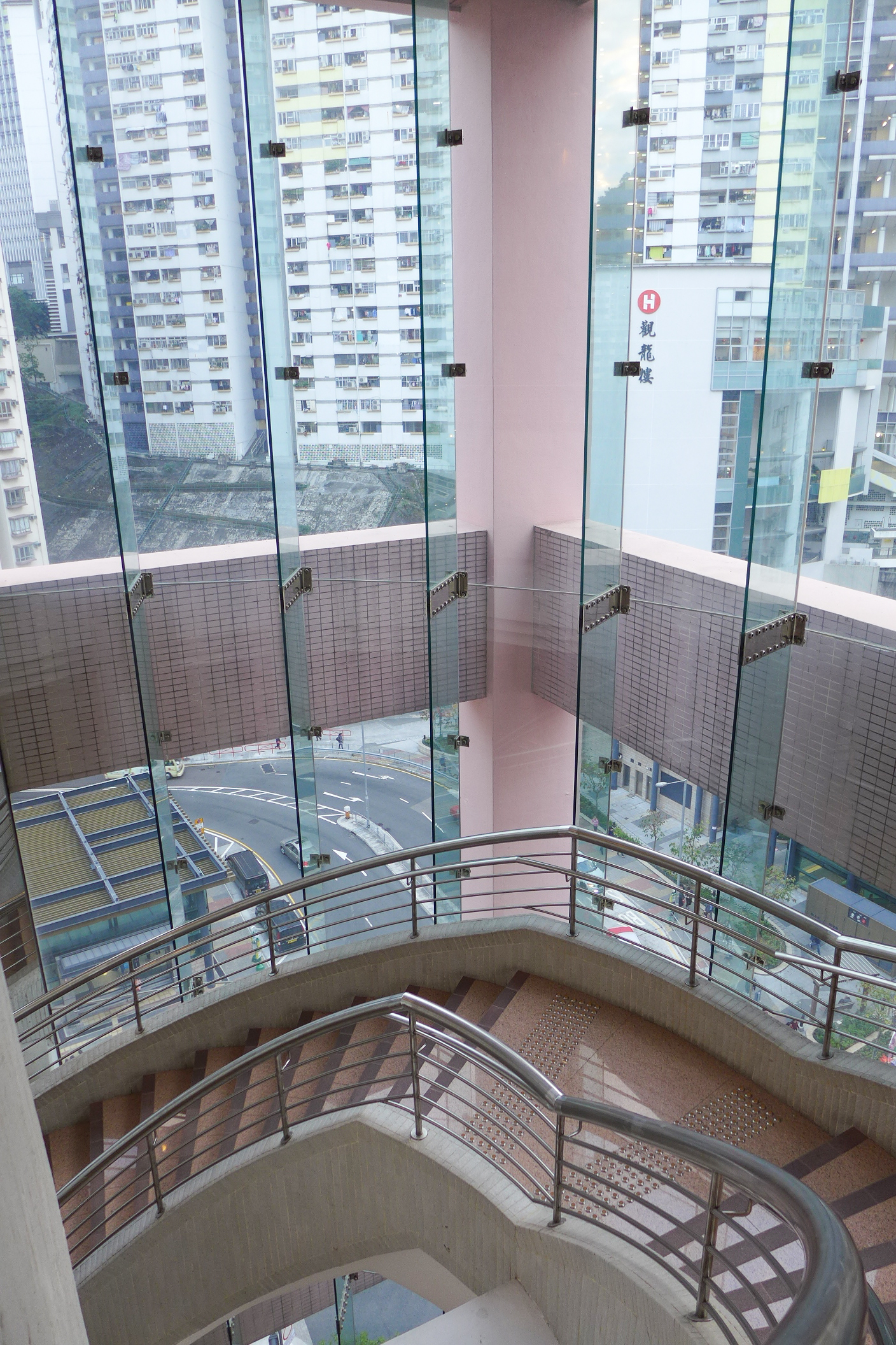 Smithfield Sports Centre Level 5 stairs